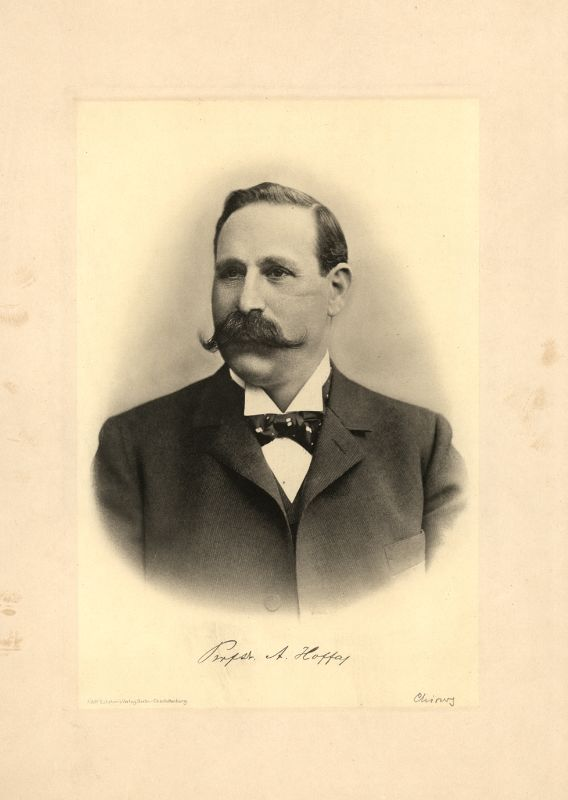 Albert Hoffa